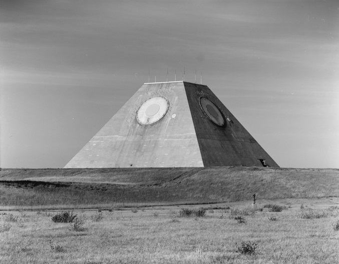 East oblique of missile site control building - Stanley R. Mickelsen Safeguard Complex, Missile Site Control Building, Northeast of Tactical Road; southeast of Tactical Road South, Nekoma, Cavalier County, ND. (LOC call number: HAER ND-9-B-9) Cropped version of File:East oblique of missile site control building - Stanley R. Mickelsen Safeguard Complex, Missile Site Control Building, Northeast of Tactical Road; southeast of Tactical Road South, HAER ND-9-B-9.tif